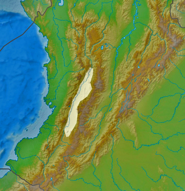 Modification of the Colombia relief location map to show the areas of the Cauca dry forest